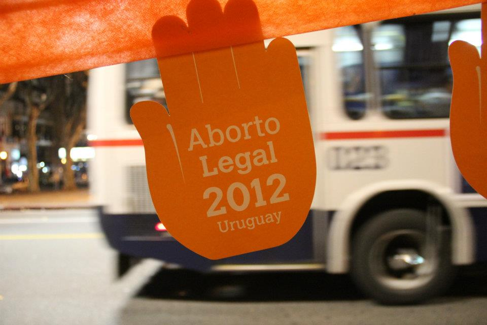 Picture taken during a 2012 protest in Uruguay for the legalization of abortion.